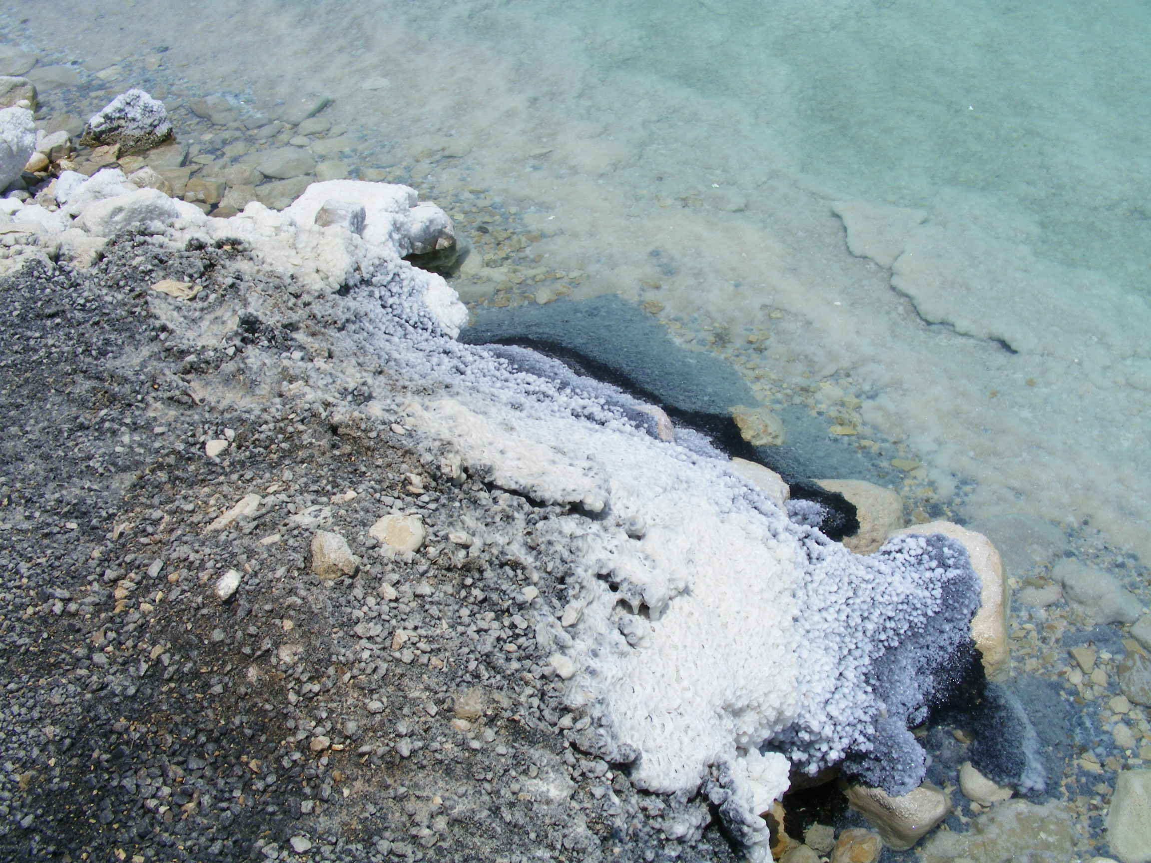 Salt covered stones at Dead Sea